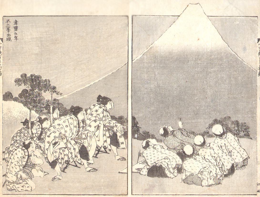 Hokusai-Manga 1